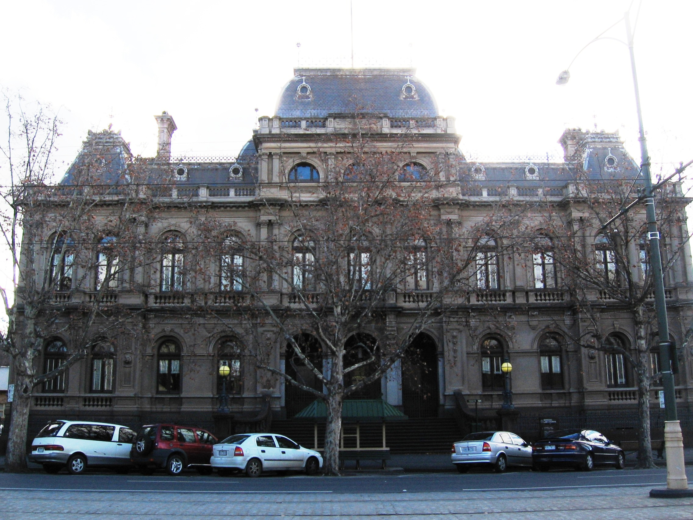 Court house in Bendigo, Victoria